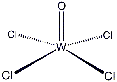 Structure of WOCl4